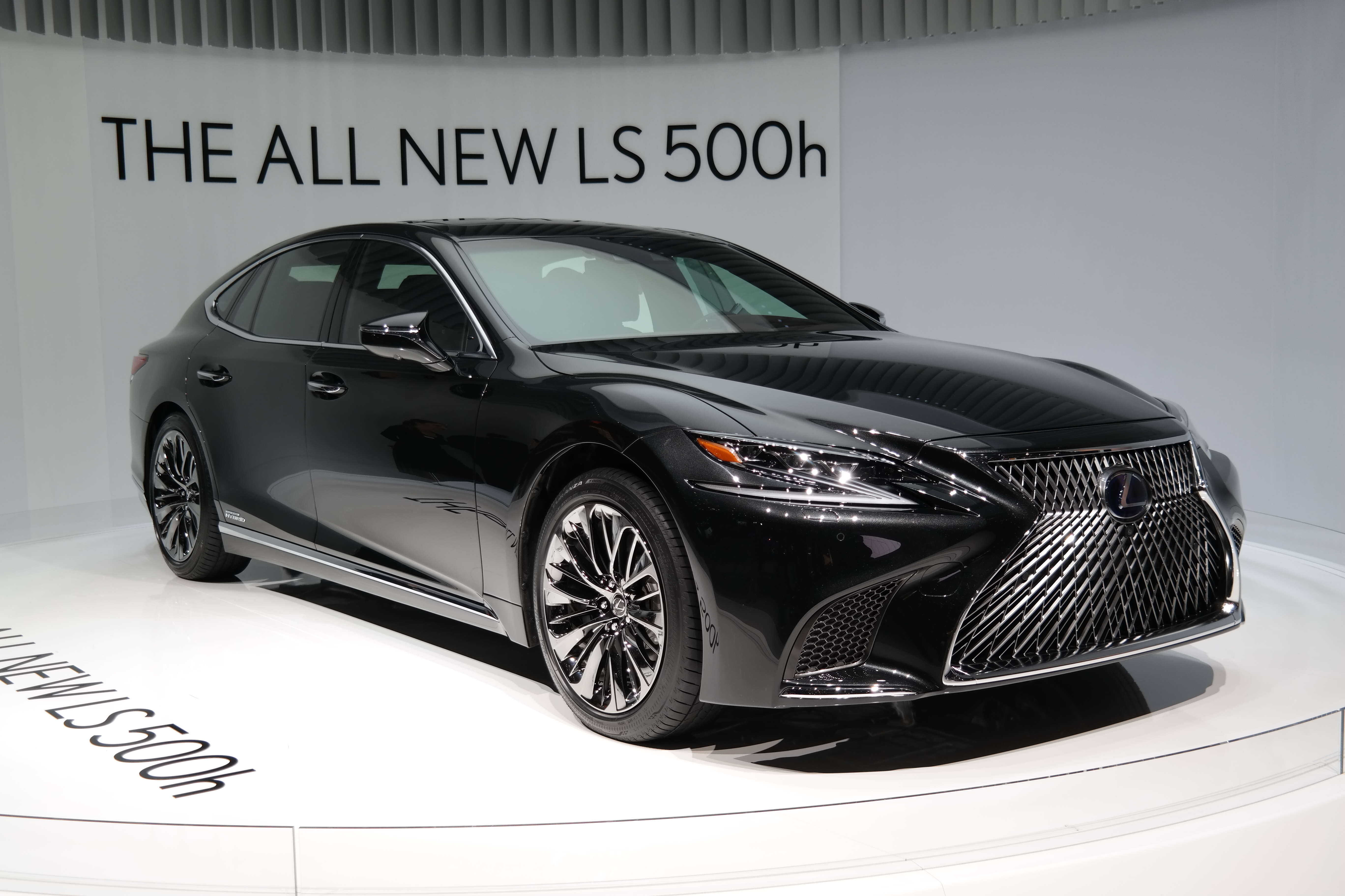 Geneva Motor Show 2017 (photo taken on the first press day)